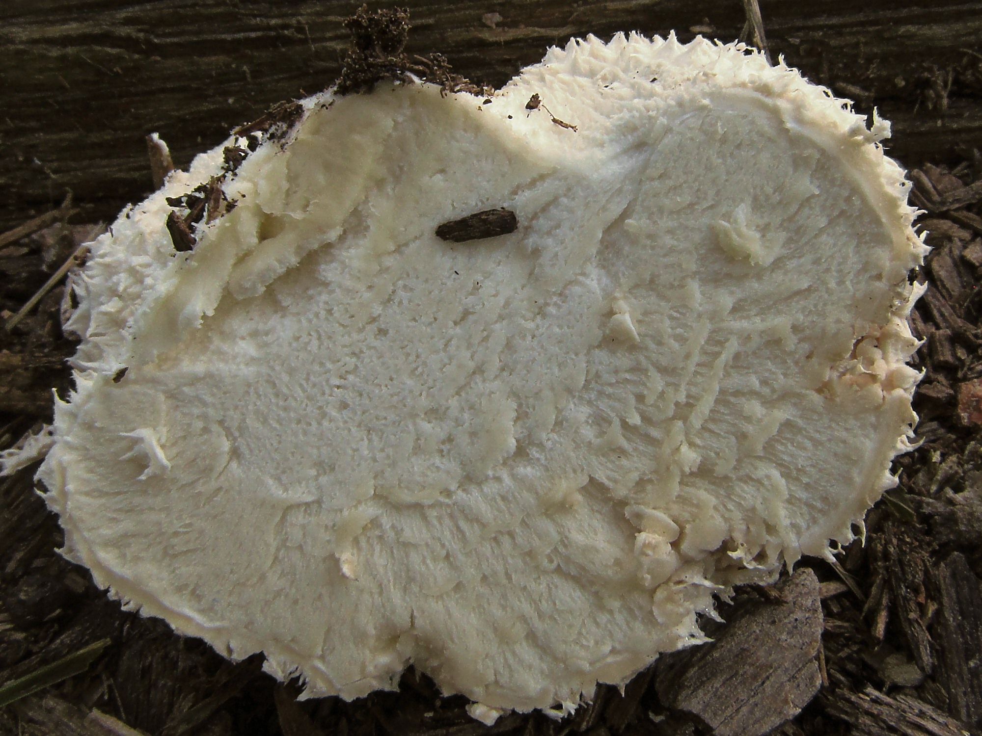 Lycoperdon marginatum Vittad. Image location: The Rock Creek Regional Park, Montgomery Co., Maryland, USA Growing in a mowed athletic field beside a creosoted timber and wood chips. Used references: MO, flicker For more information about this, see the observation page at Mushroom Observer.